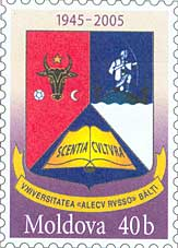 Stamp of Moldova